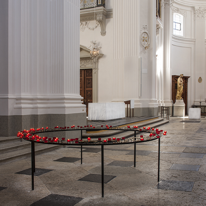 Inside view of the newly renovated St.-Ursen-Kathedrale in Solothurn in 2012. The quire was redesigned by the artistic team of Judith Albert, Ueli Brauen, Gery Hofer and Doris Wälchli.